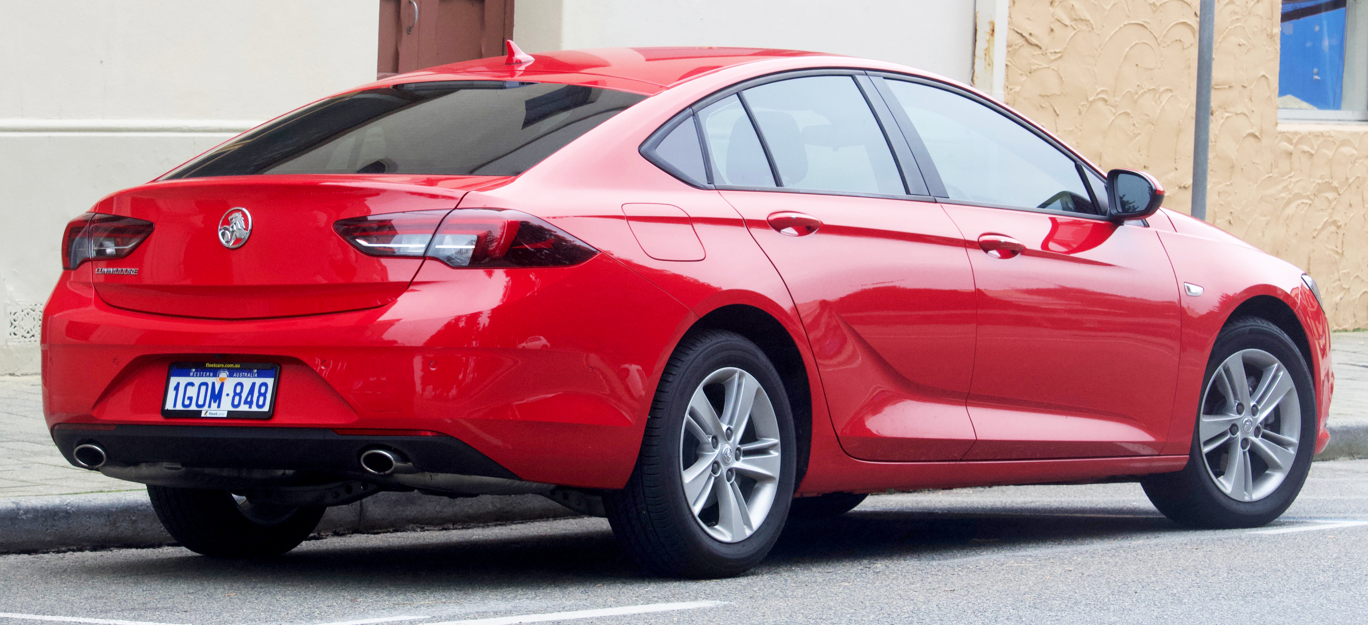 2018 Holden Commodore (ZB MY18) LT sedan. Photographed in Fremantle, Western Australia, Australia.